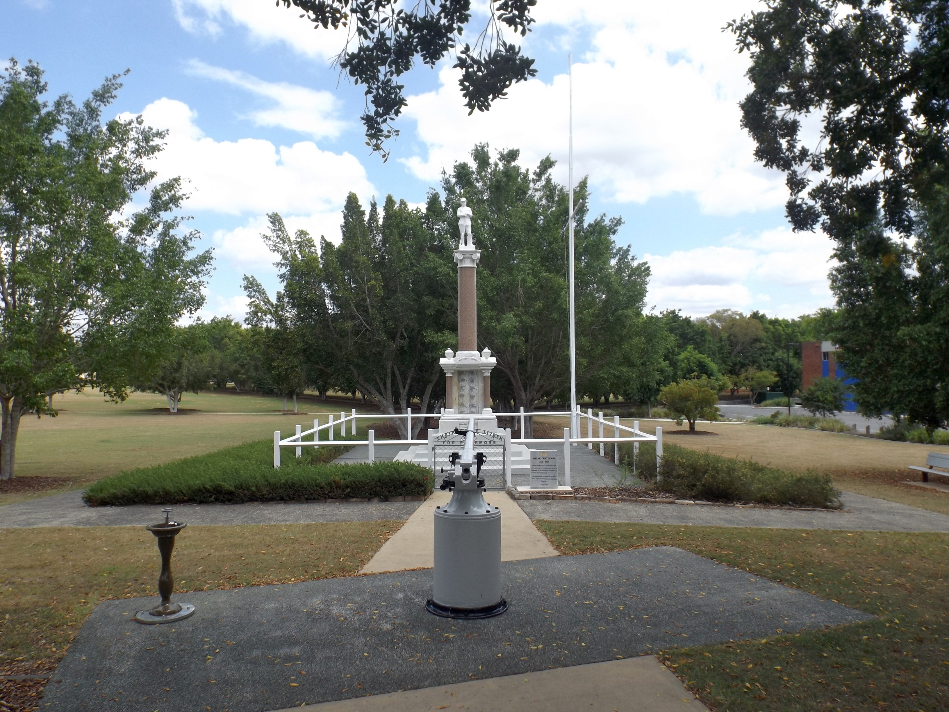 Photo of Booval War Memorial at Cameron Park, Booval, Ipswich, Queensland, Australia.